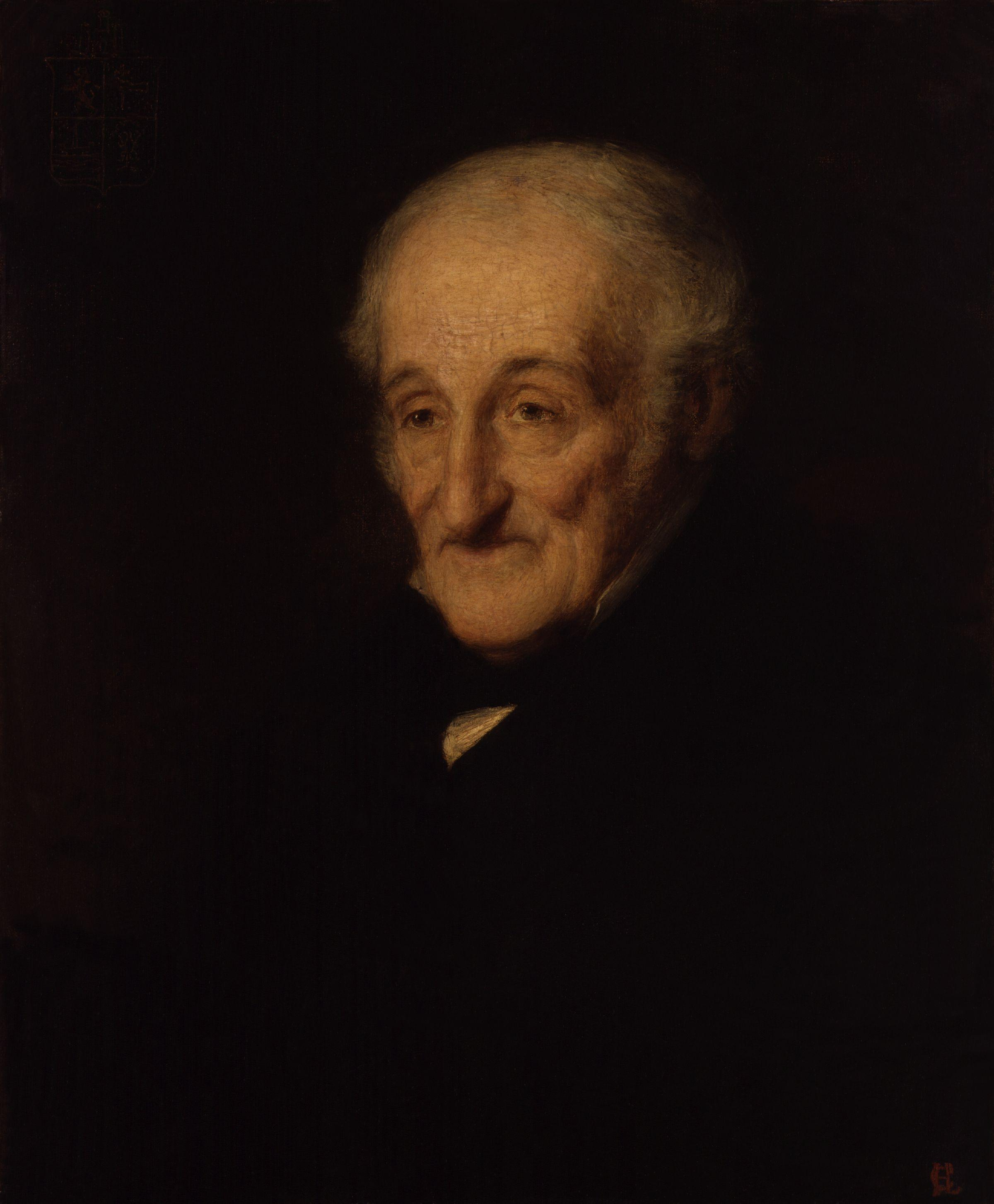 Sir Francis Ronalds, by Hugh Carter (died 1903), given to the National Portrait Gallery, London in 1897. All images in this batch have been confirmed as author died before 1939 according to the official death date listed by the NPG.